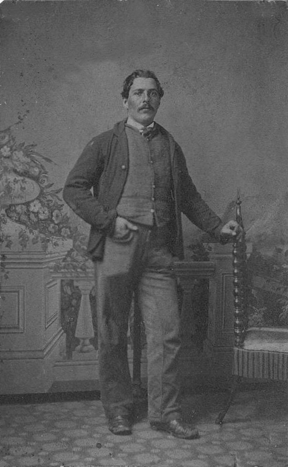 Photograph of Union soldier, John C. McNeel, from White Oak, McLean County, Illinois, who served in the 33rd Illinois Infantry Regiment, Company C. He is pictured here in his army uniform.